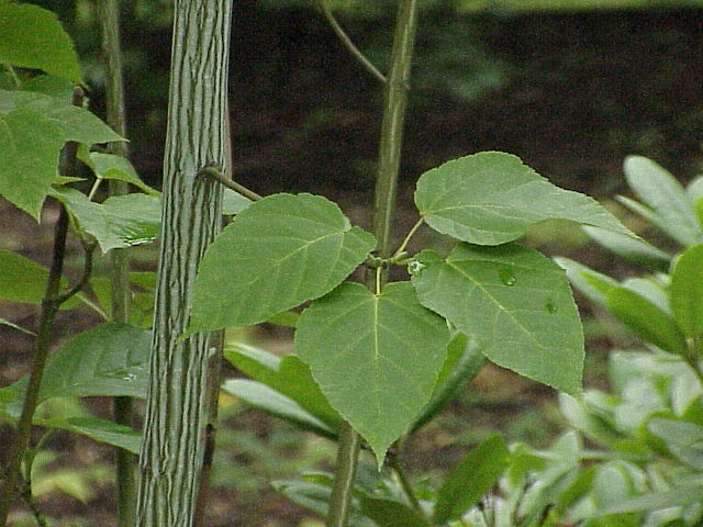 Species: Acer pensylvanicum Acer grosseri or Acer davidii subsp. grosseri Family: Sapindaceae Image No. 1